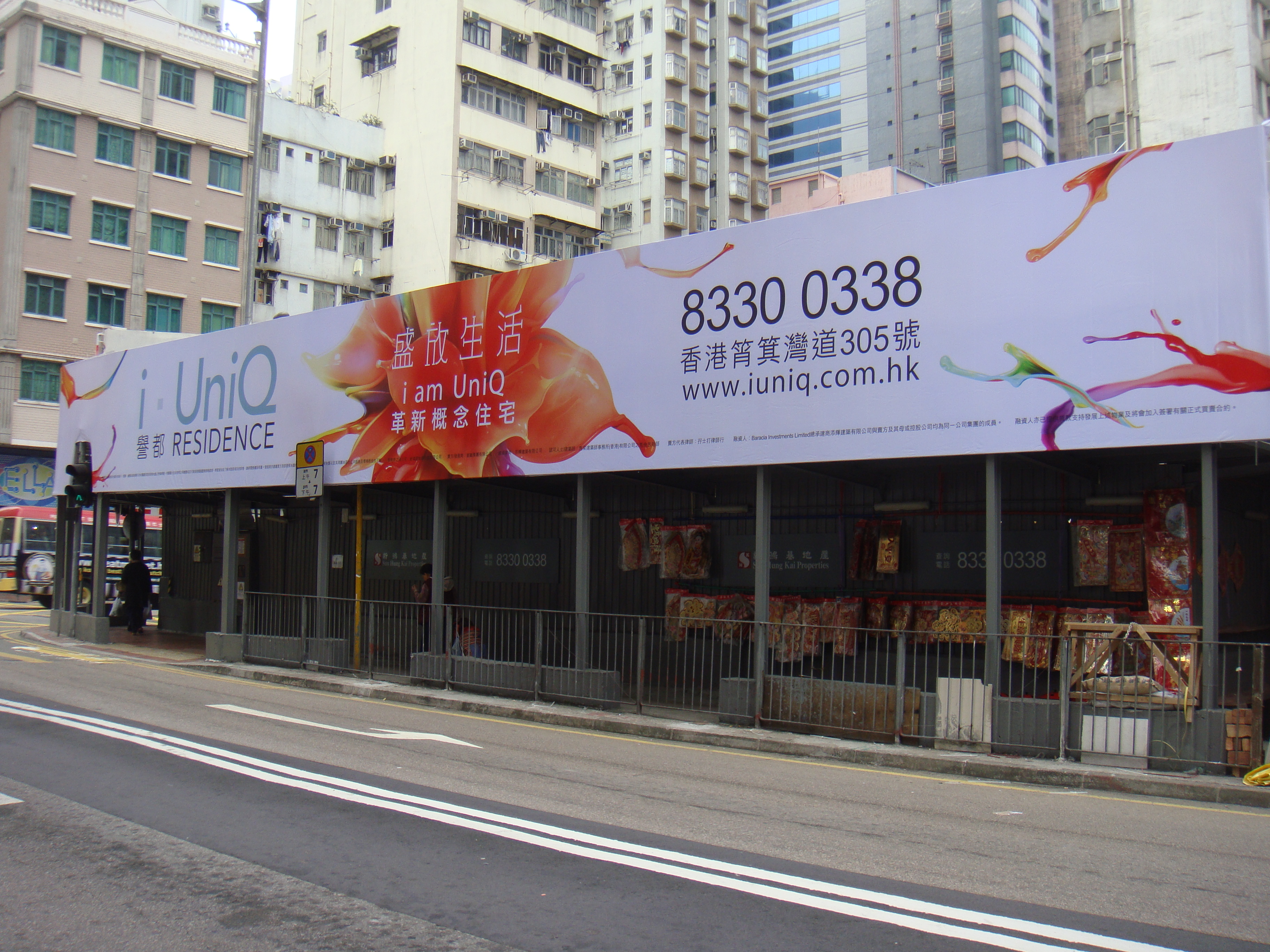 the outlook and hoarding of the i.UnIQ Residence